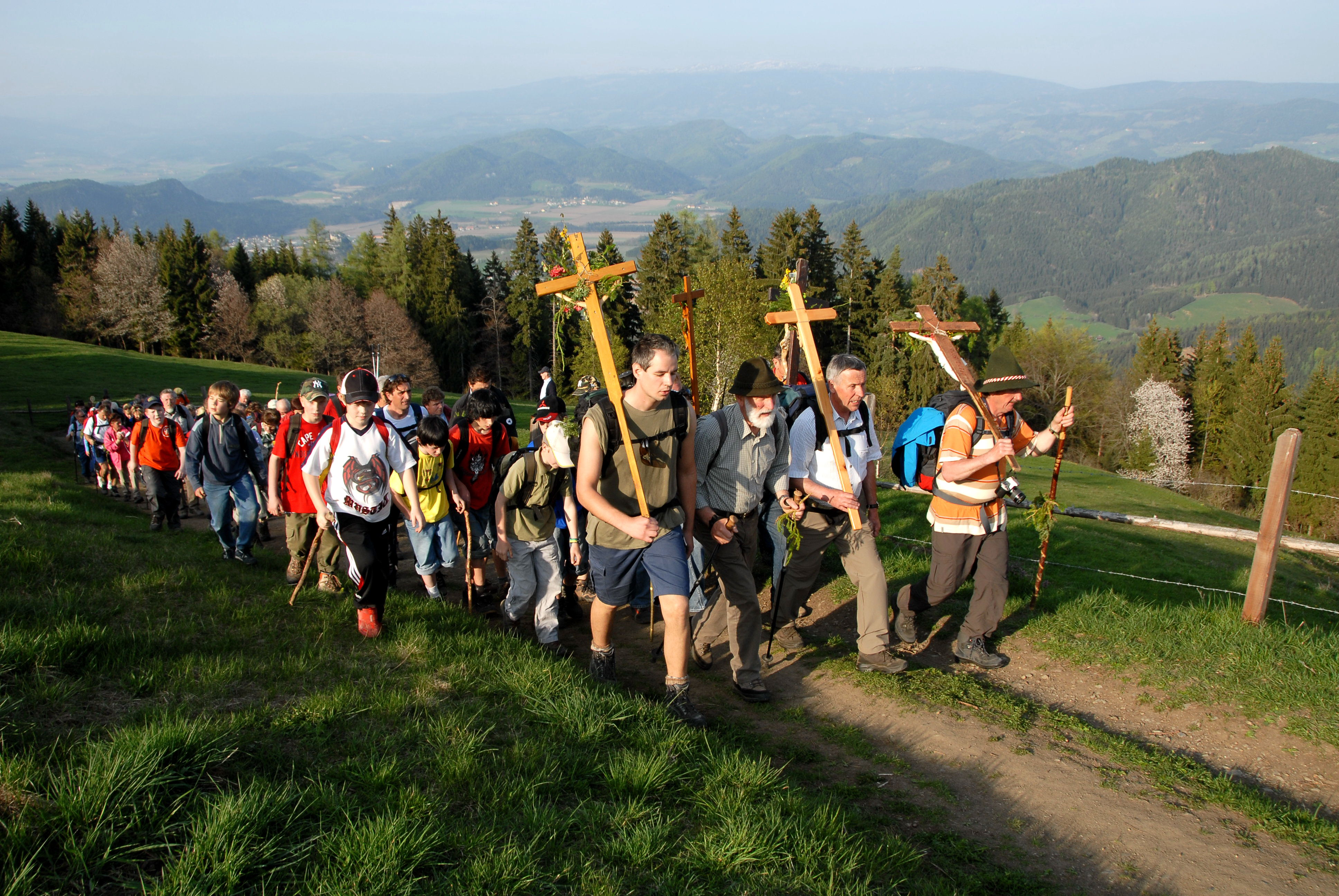 Vierbergelauf pilgrimage on mount Magdalena in the community of Magdalensberg, district Klagenfurt-Land, Carinthia, Austria